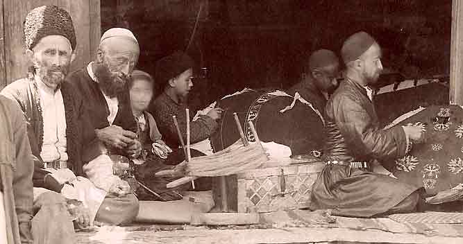 Carpet_manufacturing_Ganja_XIXcentury.jpg